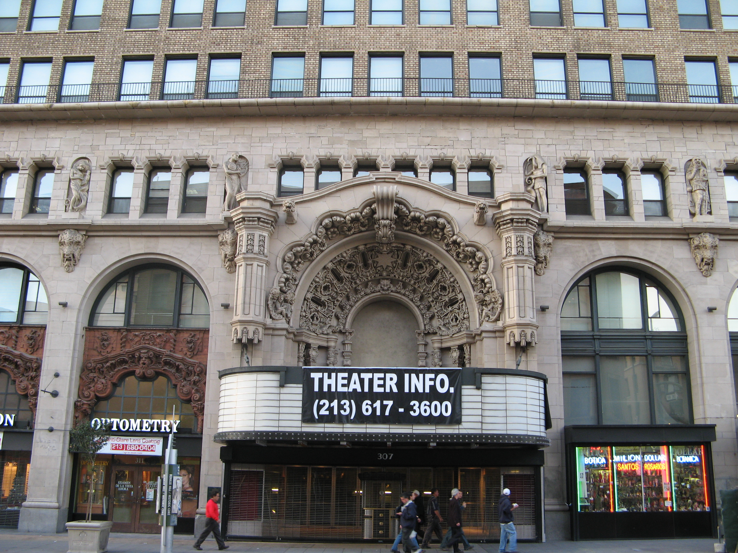 The Million Dollar Theater on 307 S. Broadway in downtown Los Angeles.